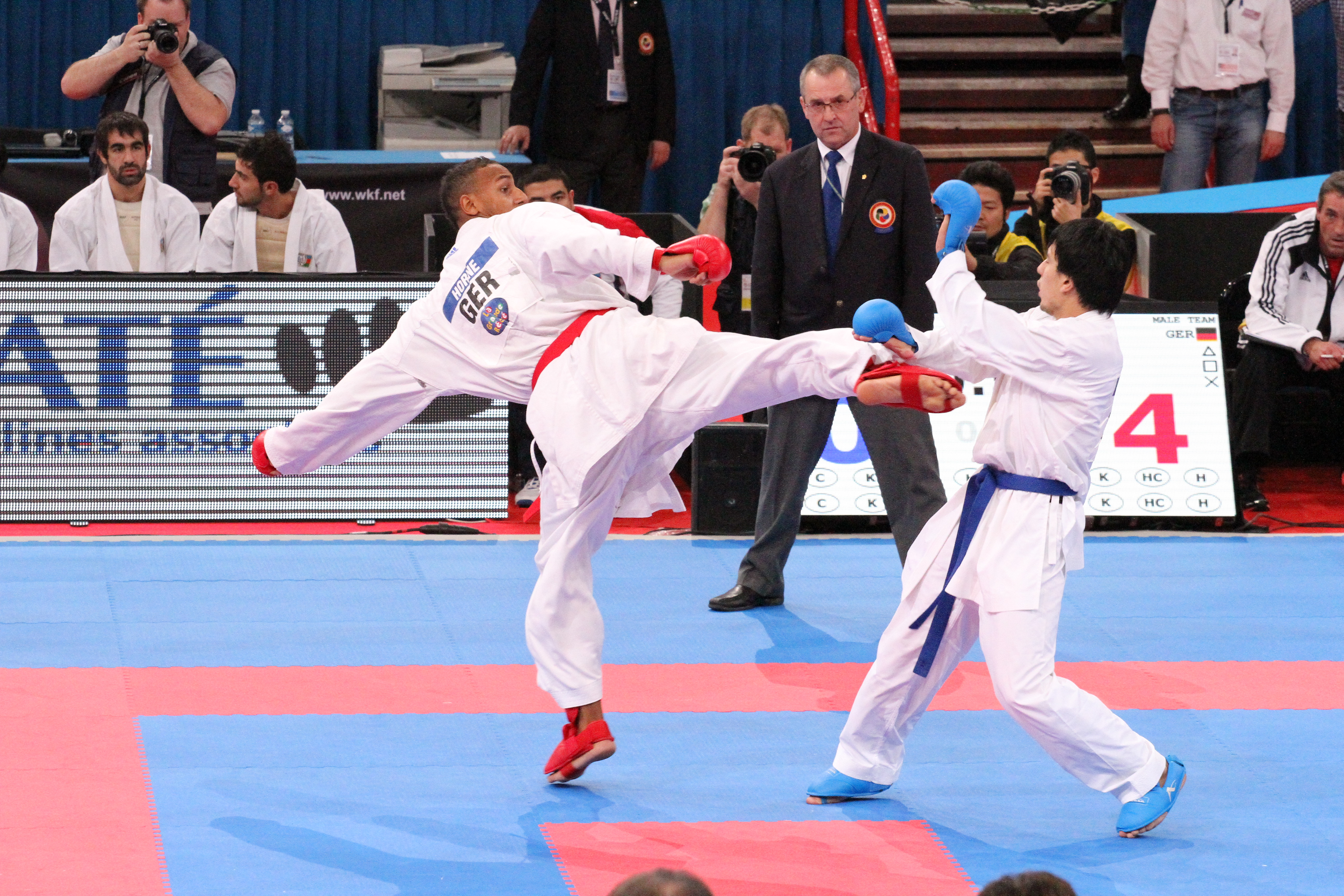 World Championships 2012 Karate